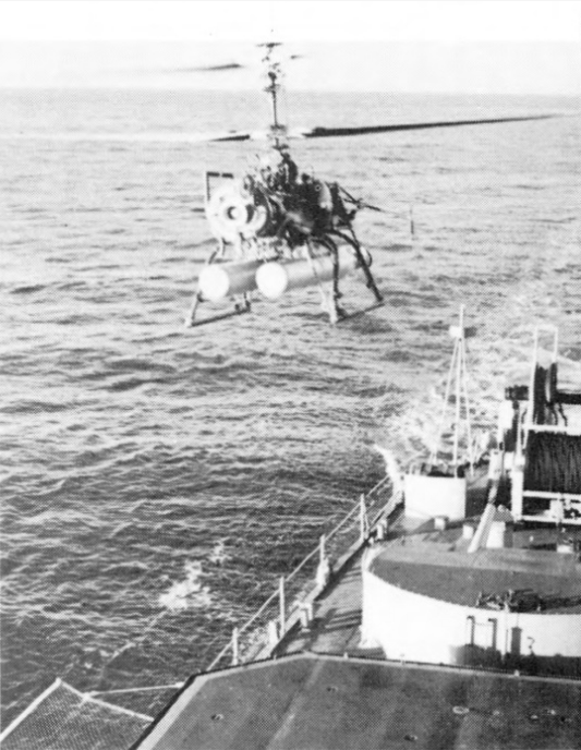 DASH takes off with torpedoes underneath